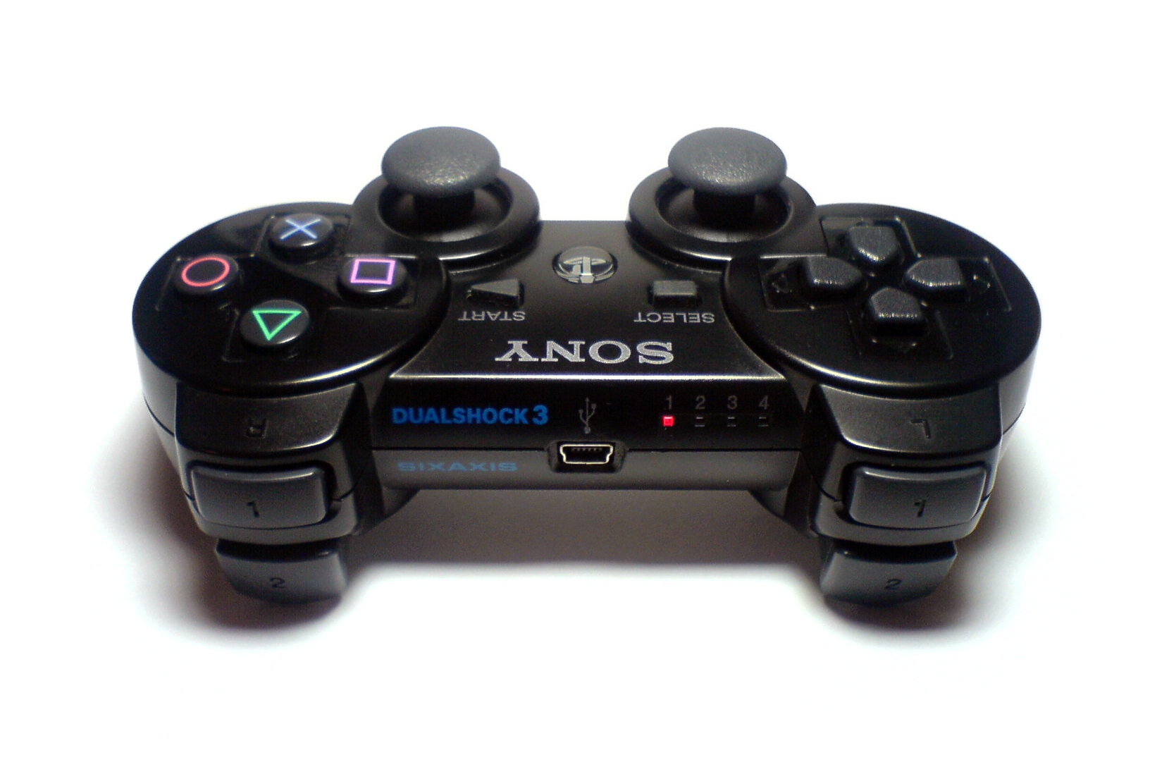 Rear of a standard black Sony DualShock 3 controller showing the DUALSHOCK 3 and SIXAXIS labels, USB Mini-B port and indicator LEDs.